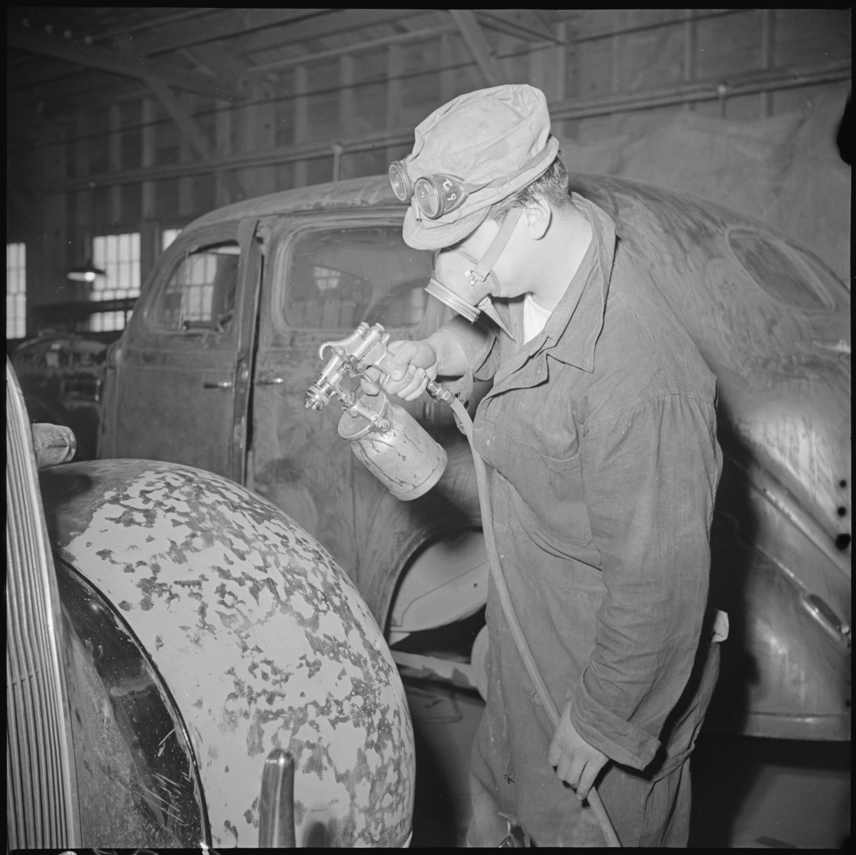 Scope and content: The full caption for this photograph reads: Tule Lake Relocation Center, Newell, California. A view in the paint shop in the garage, at this Relocation Center. All repair work on cars, trucks, tractors, and other vehicles, are done by evacuee labor.